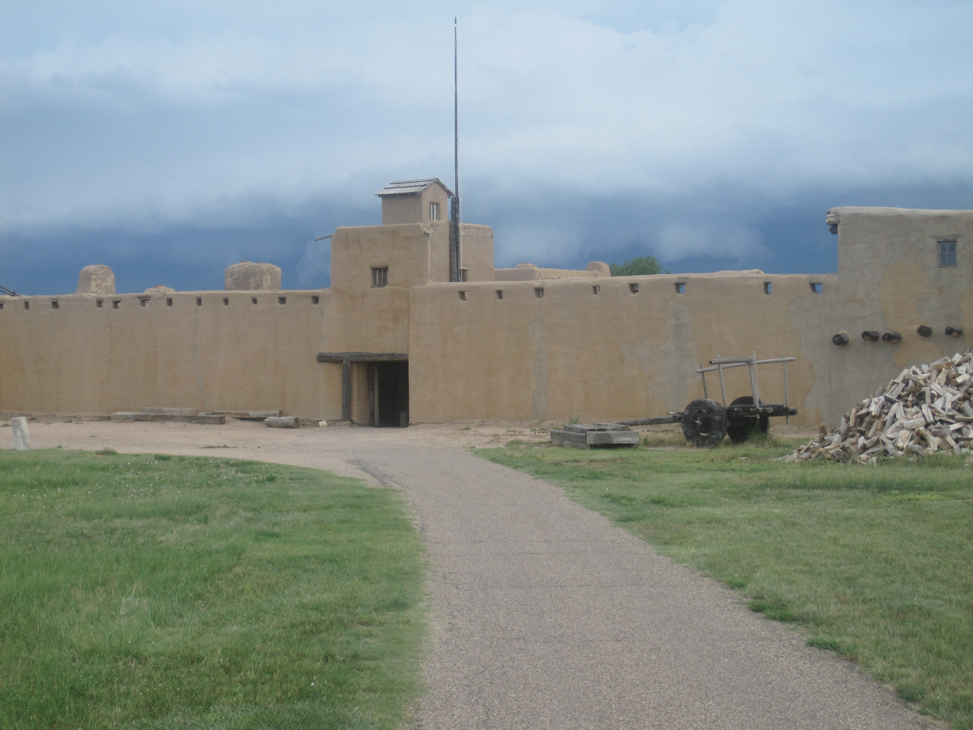 I took photo with Canon camera at Bent's Old Fort.